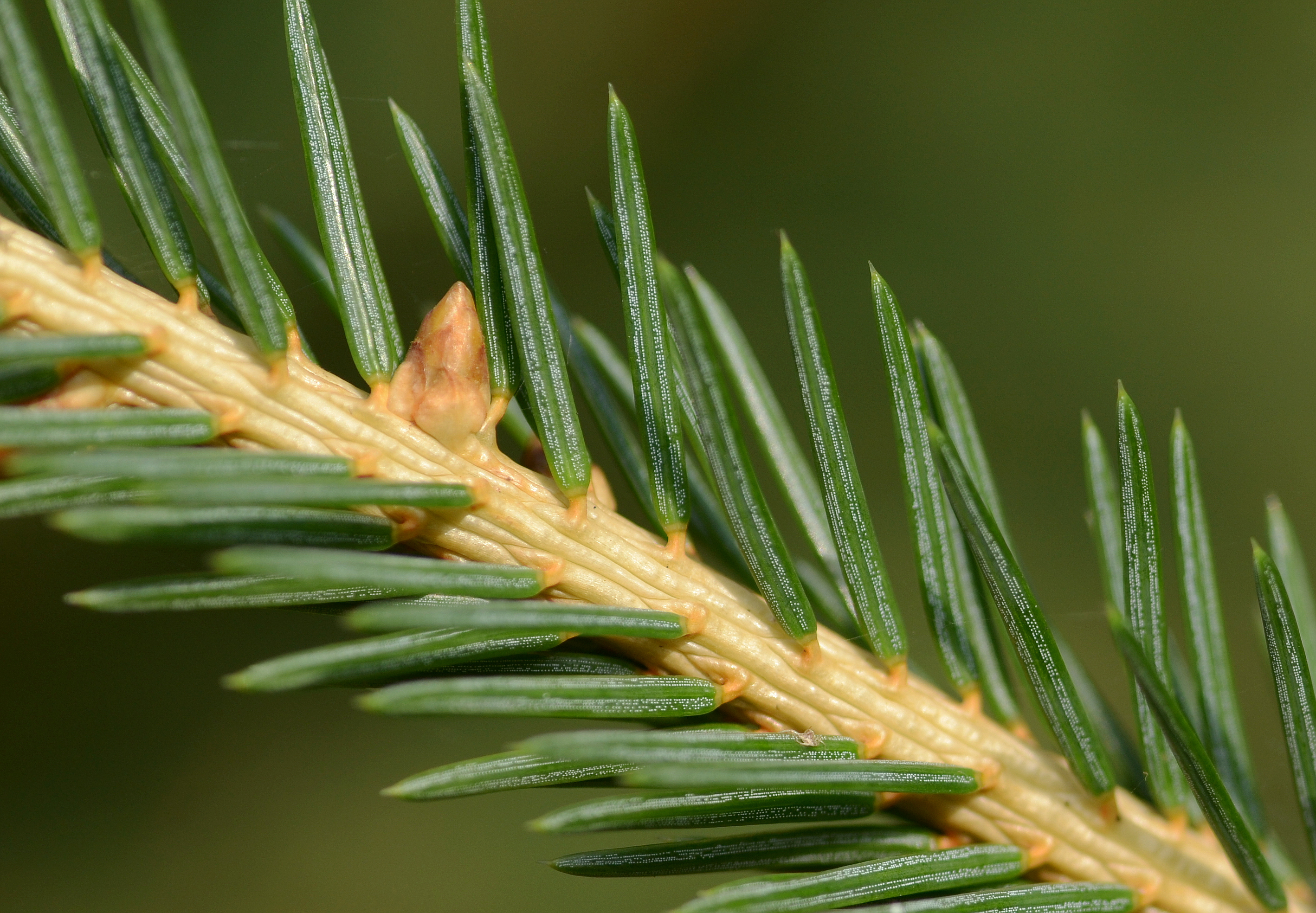 Pulvini on a Norway Spruce Picea abies (and generally Picea) shoot; they are lignified, unlike the leaves.